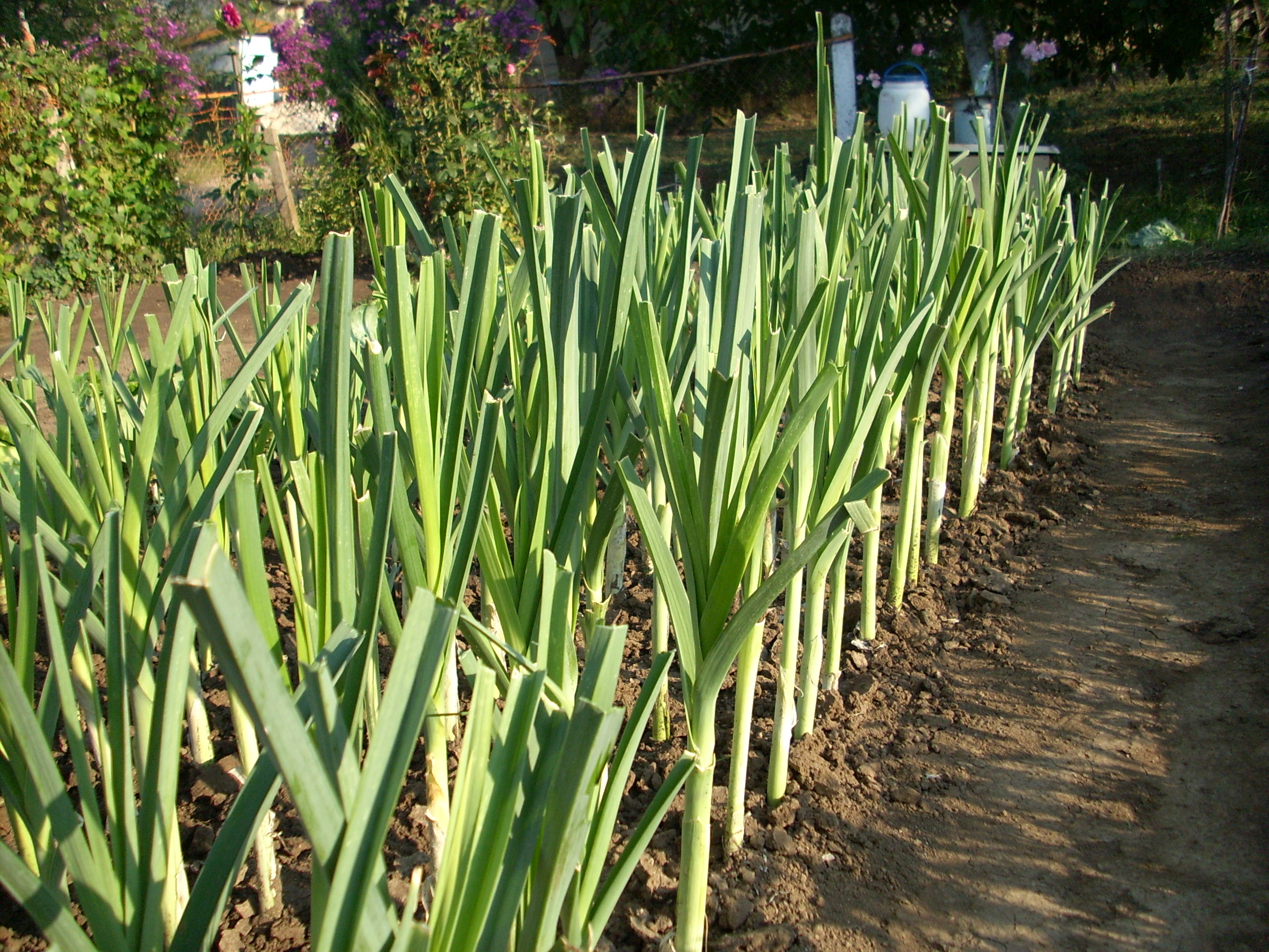 Leeks